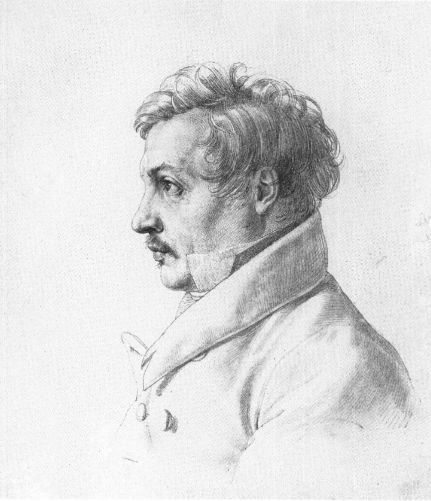 Bildnis Joseph Thürmer